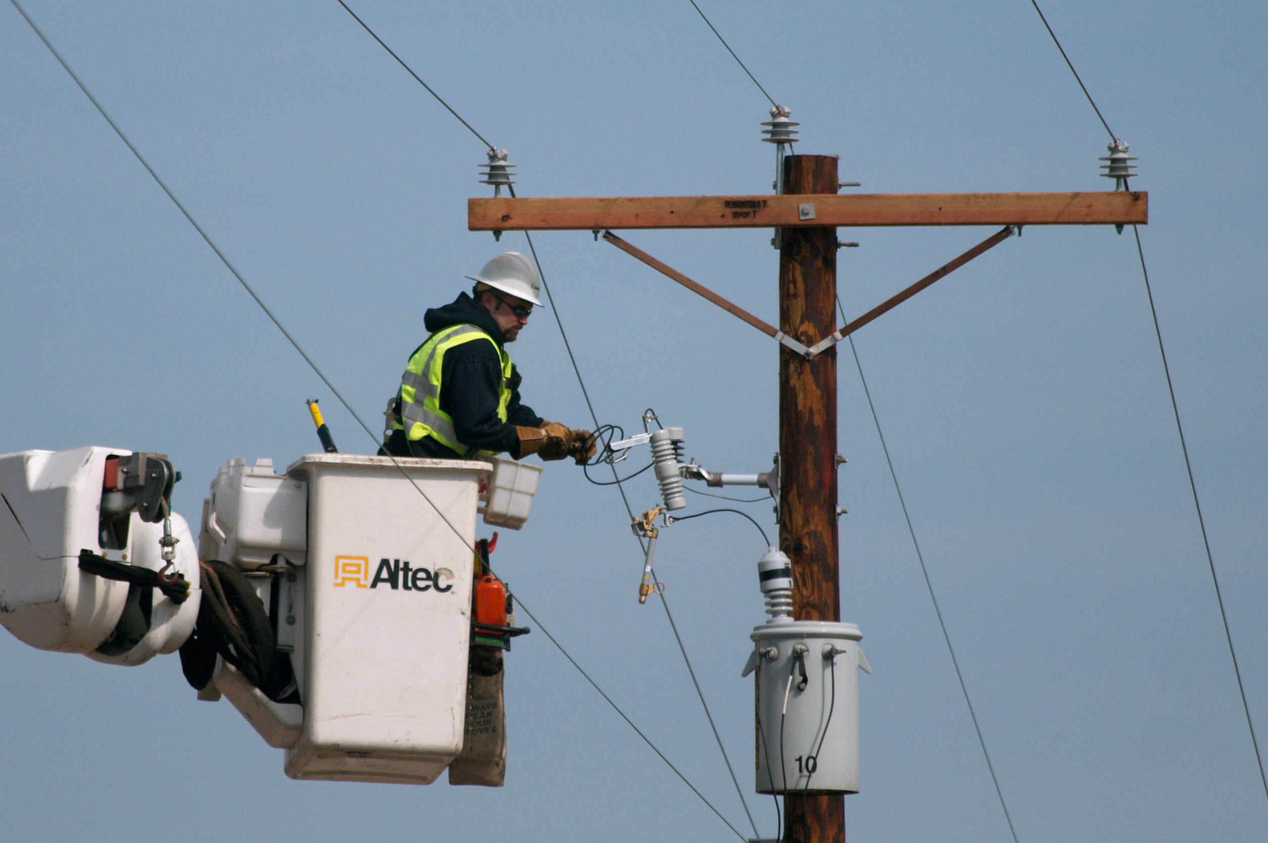 An electrician working, taken in Urbana, IL